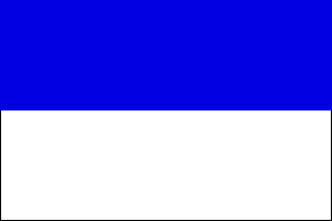 Flag of Rheims, France